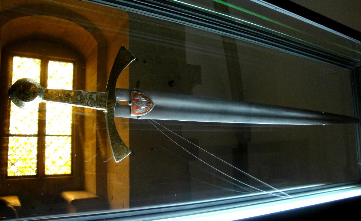 The Szczerbiec (Polish coronation sword; obverse) as displayed in the Wawe Castle